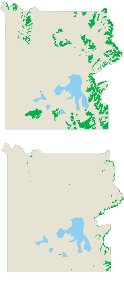 Top: Current distribution of whitebark pine portrayed by a computerized geographic information system (GIS). Bottom: Distribution of whitebark pine projected by GIS analysis under a modest increase in warmth and dryness, showing a decrease of approximately 90%. National Park Service image.